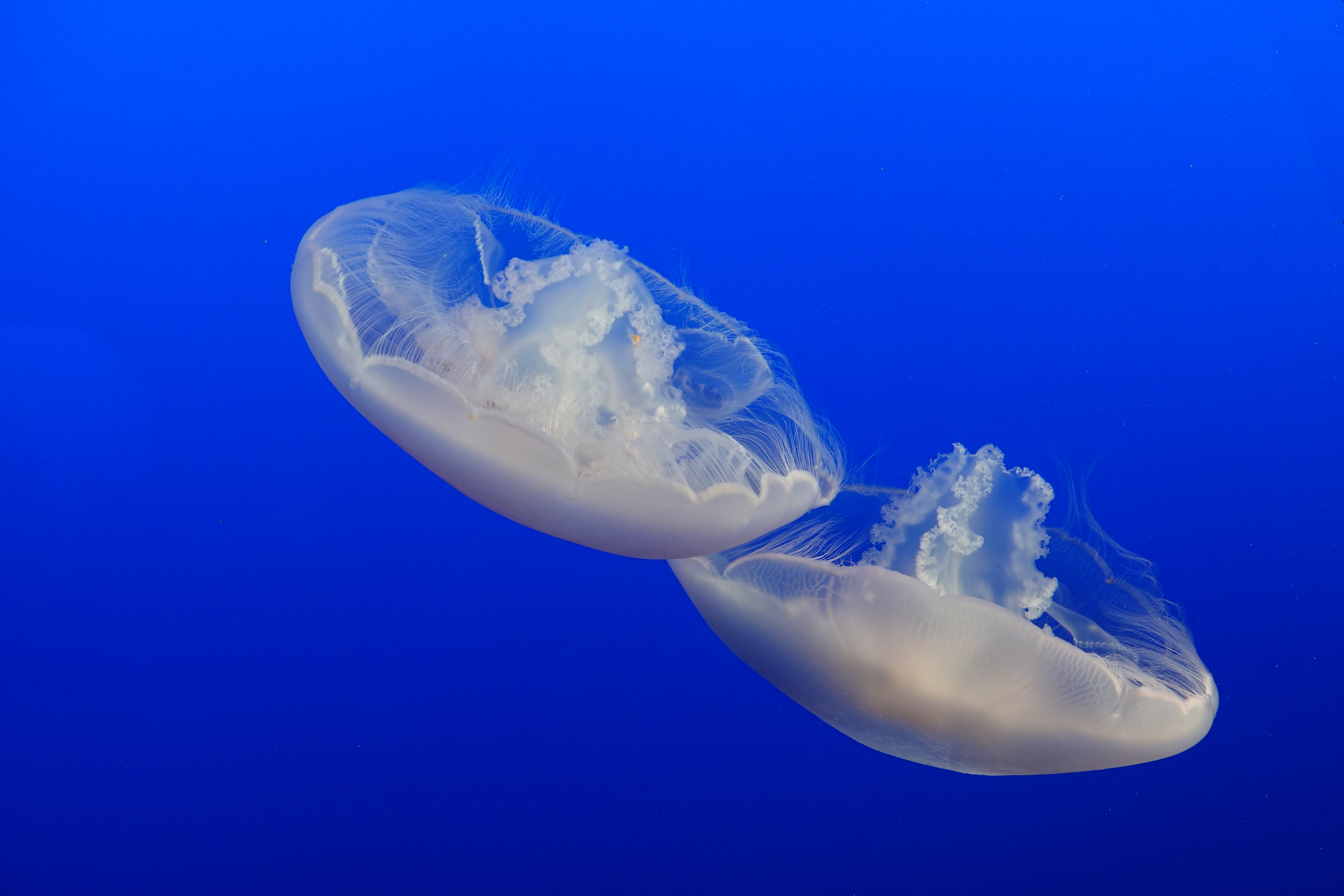 Picture of a Moon Jelly (Aurelia labiata) taken at Monterey Bay Aquarium, Monterey, California USA.